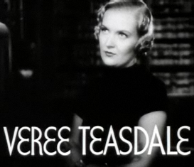 Cropped screenshot of Verree Teasdale from the trailer for the film First Lady